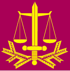 The Finnish Defence Forces insignia for the judicial activities.